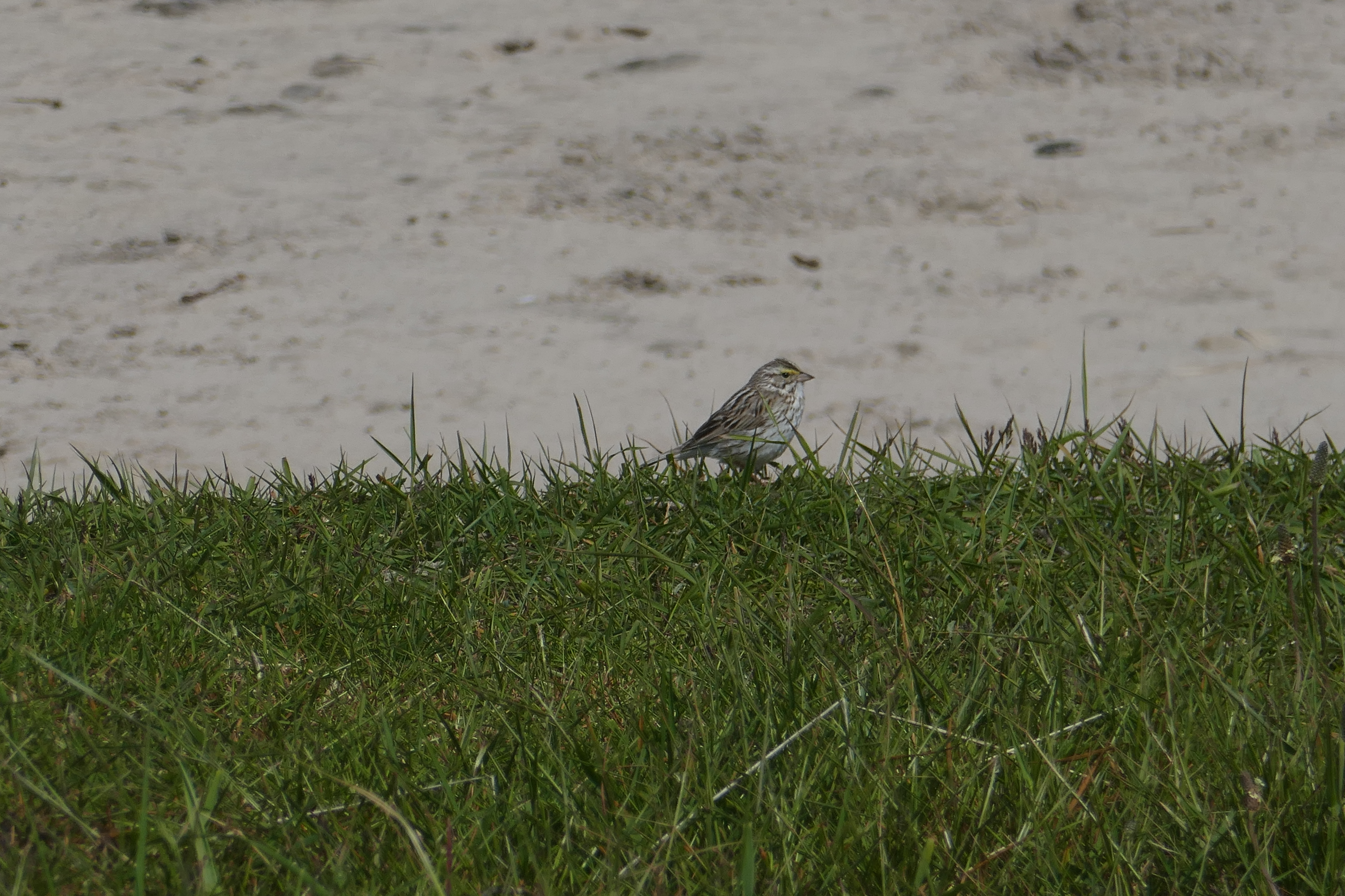 Ipswich sparrow on Sable Island, Nova Scotia, Canada